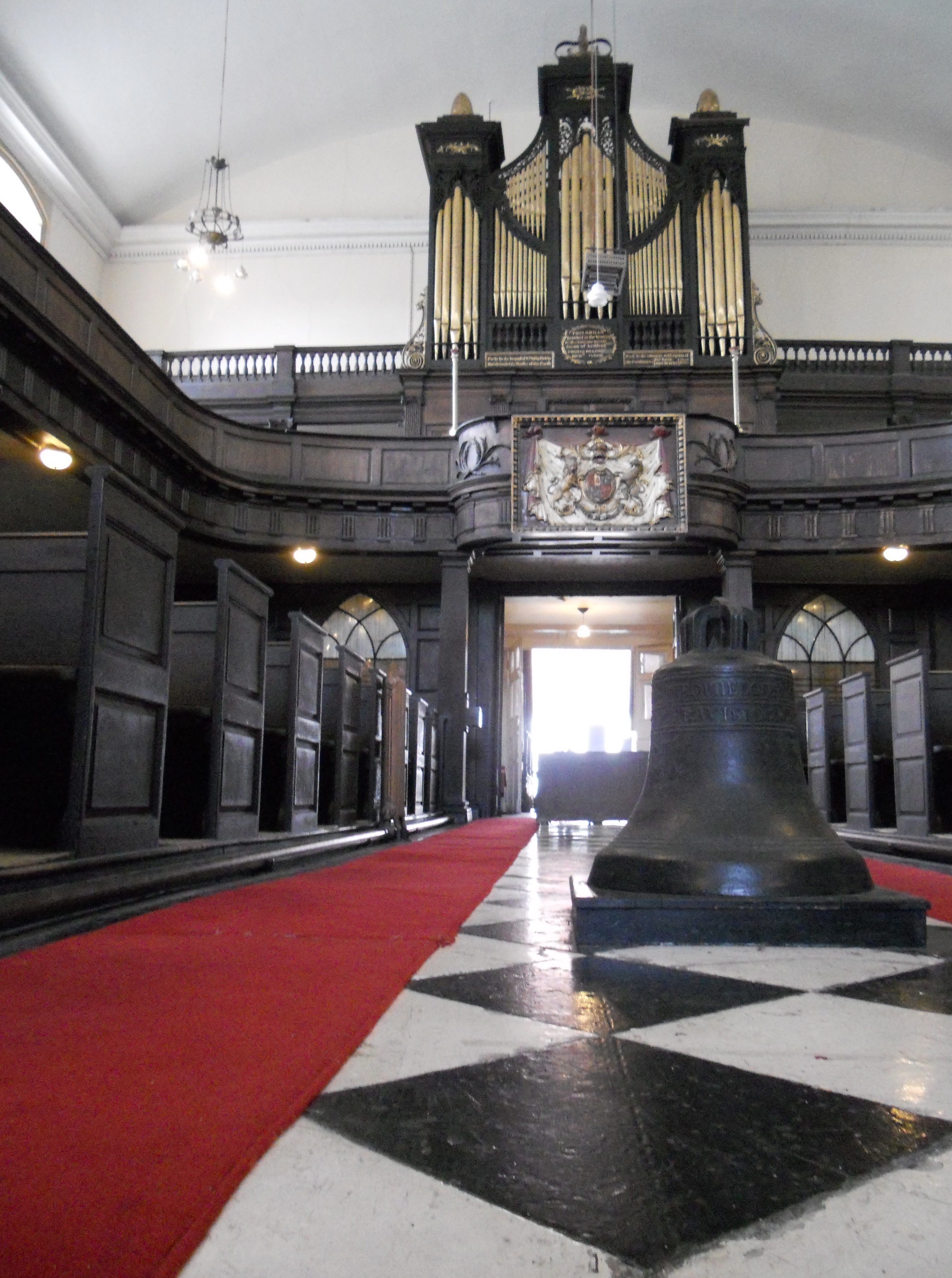 Interior view of St Werburgh's parish church pews (1740) with bell dedicated to James Napper Tandy (1798) displayed on the centre aisle's black and white floor tiles.